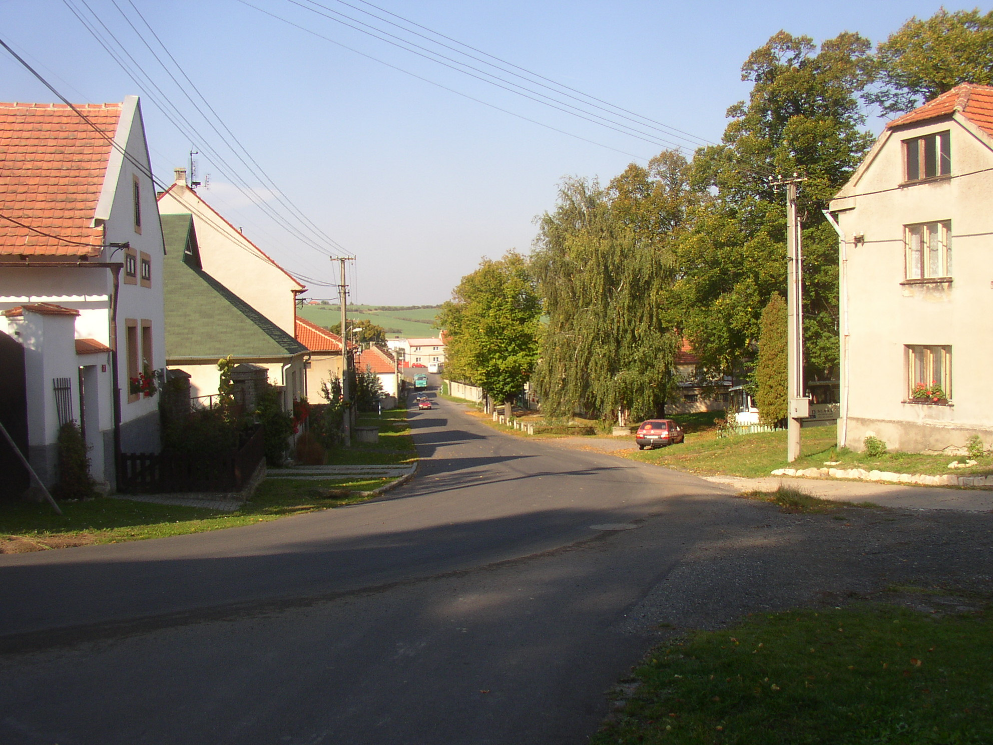 Malíkovice, Kladno District, Czech Republic. A view from church through centre of the village towards north.